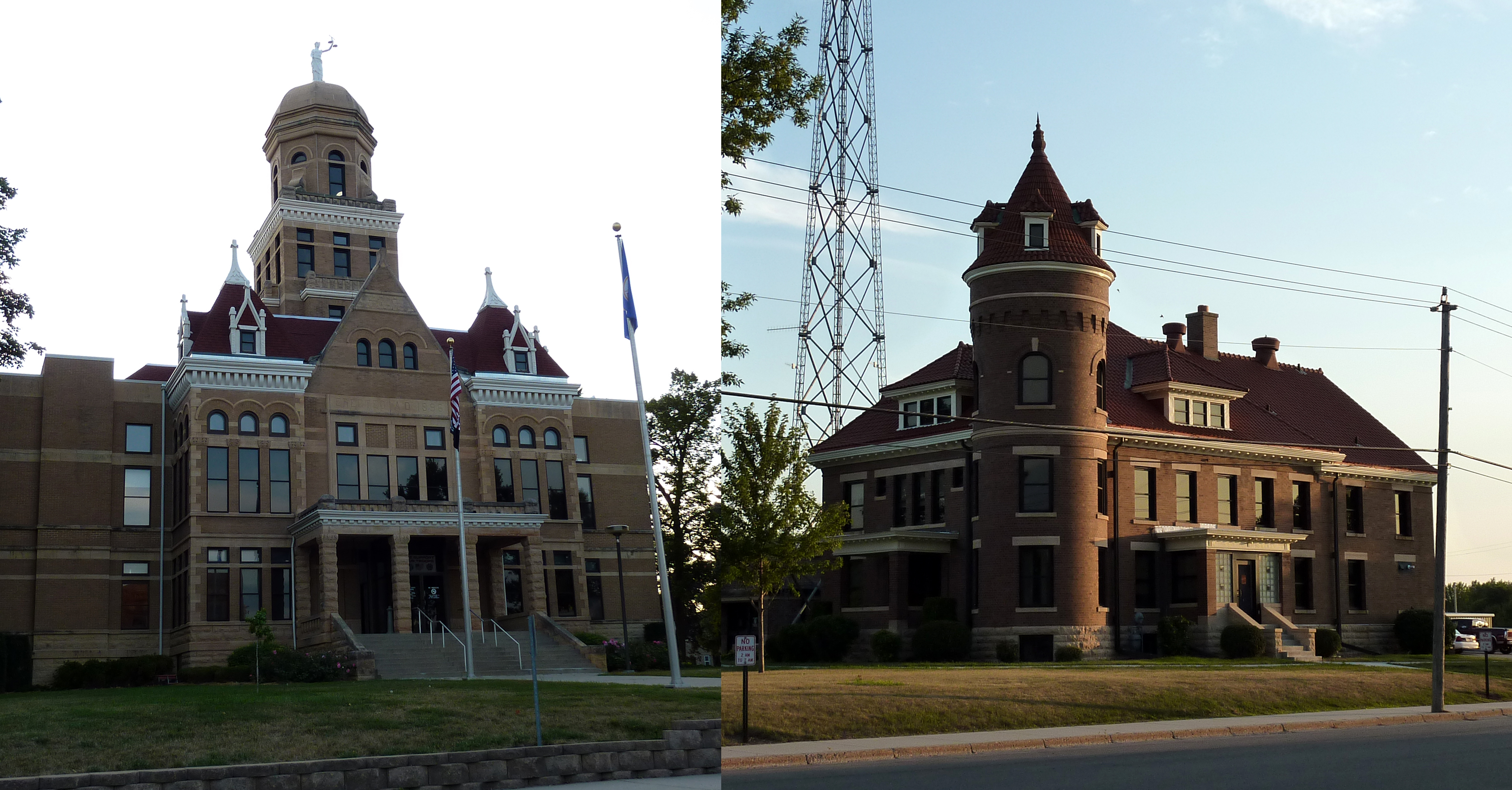 Le Sueur County Courthouse (left) and Jail (right), Le Center, Minnesota, USA.